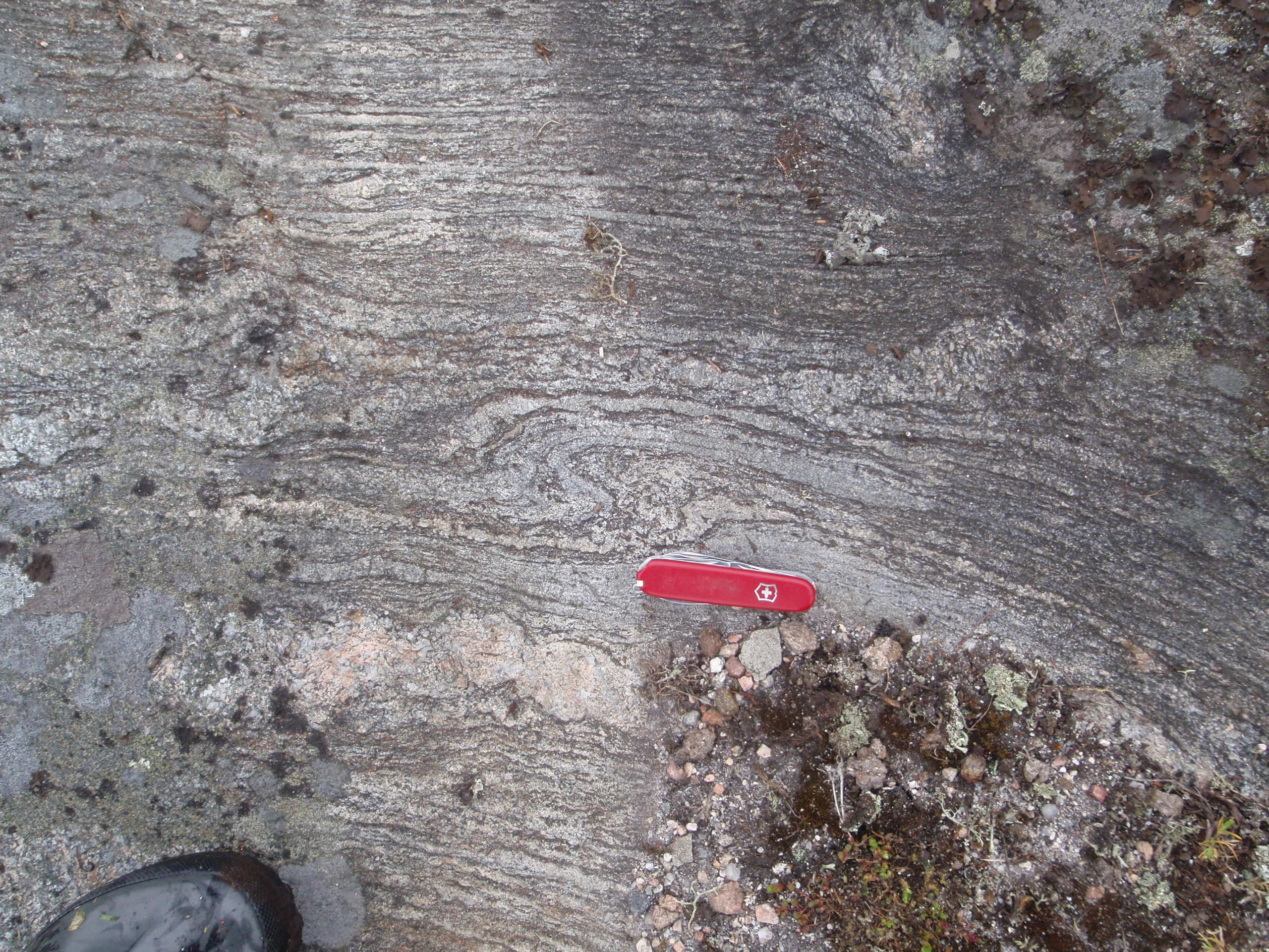 Mica gneiss with left handed fold. Berghamn island, Länsi-Turunmaa, Finland.